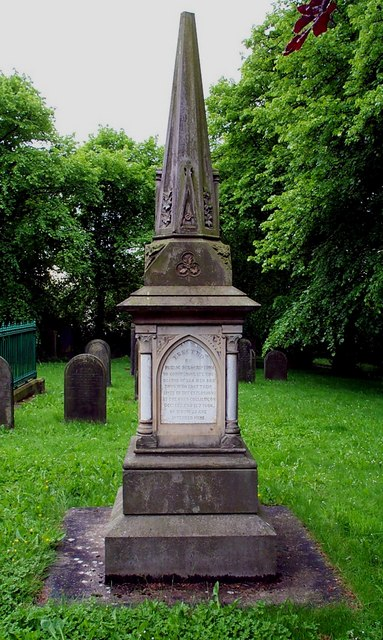 Oaks Colliery disaster monument in Ardsley cemetery, Barnsley, South Yorkshire